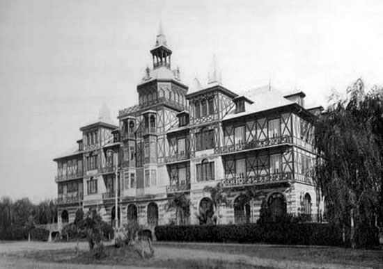 The Tigre Hotel of Buenos Aires, Argentina.